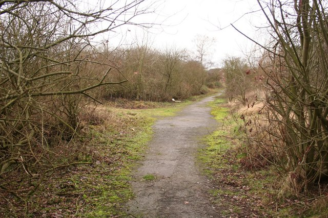 Old Station Road Torksey Station stood to the left